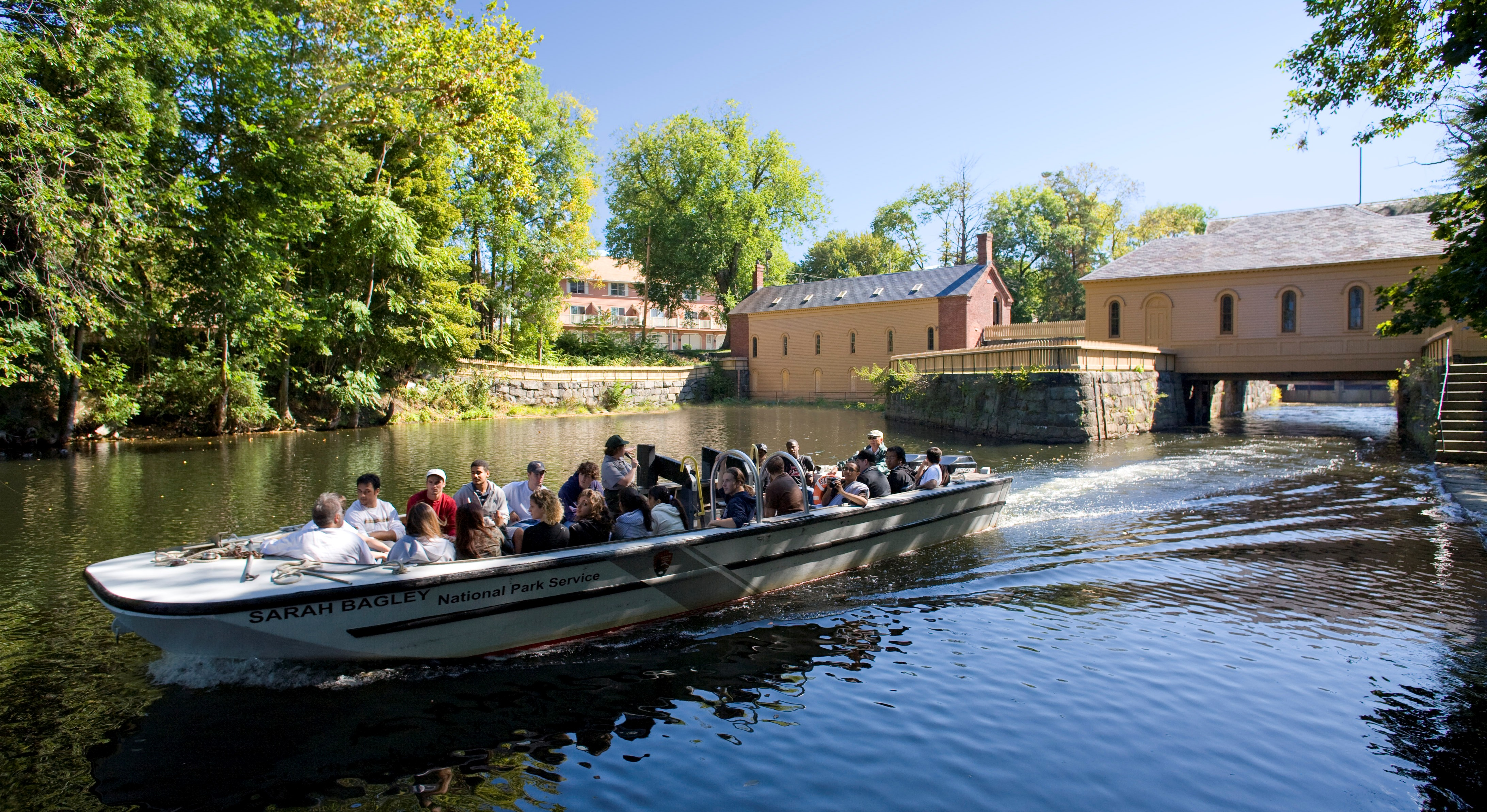 National Park Service boat tour of the Lowell Canal System